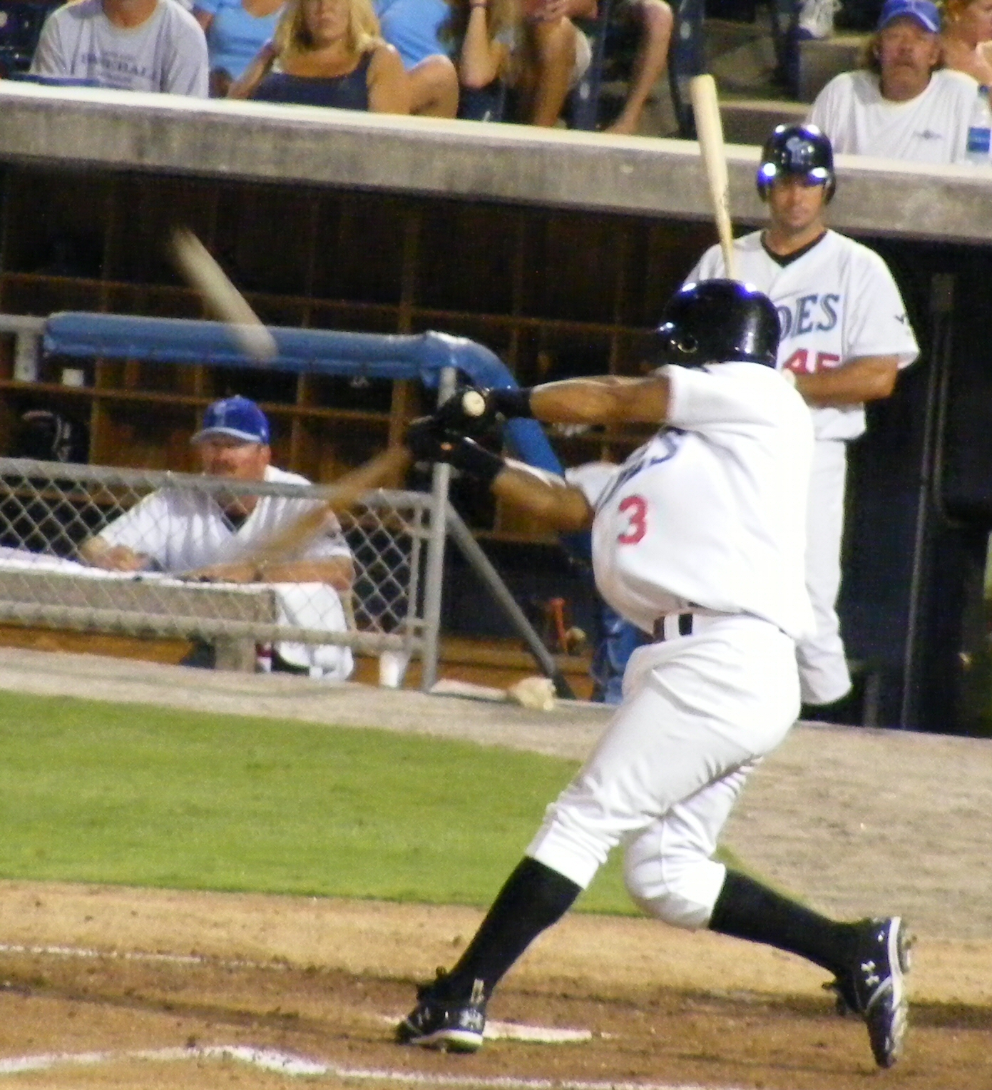 Eider Torres (en), of the Norfolk Tides (en), taken at a game in Harbor Park against the Columbus Clippers